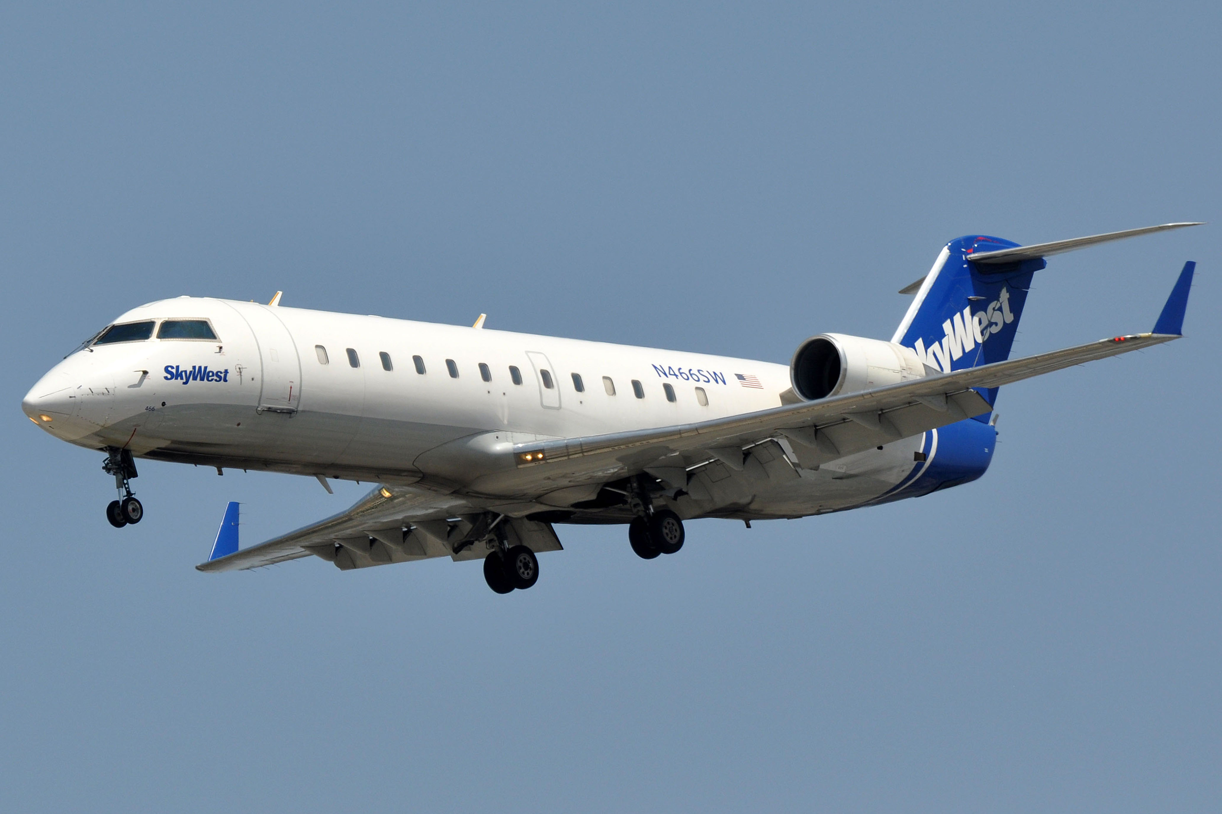 MSN 7856 CRJ-200ER / CRJ-200 SKYWEST USA LAX AIRPORT IN-OUT BURGER